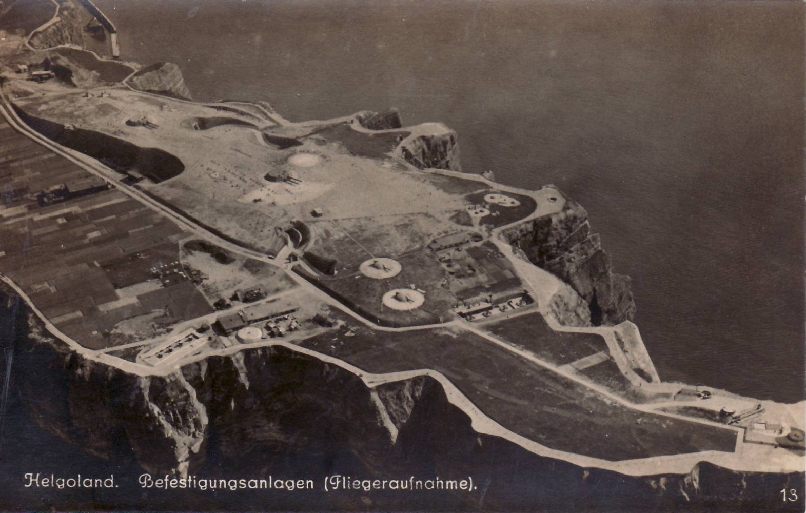 Aerial view of the northern part of Heligoland with guns